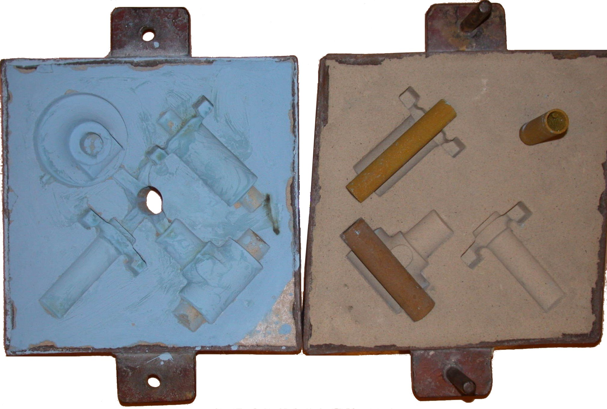 Cope & drag (top and bottom halves of a sand mold), with cores in place on the drag. Results: File:SandMoldBronzeAluminium.jpg